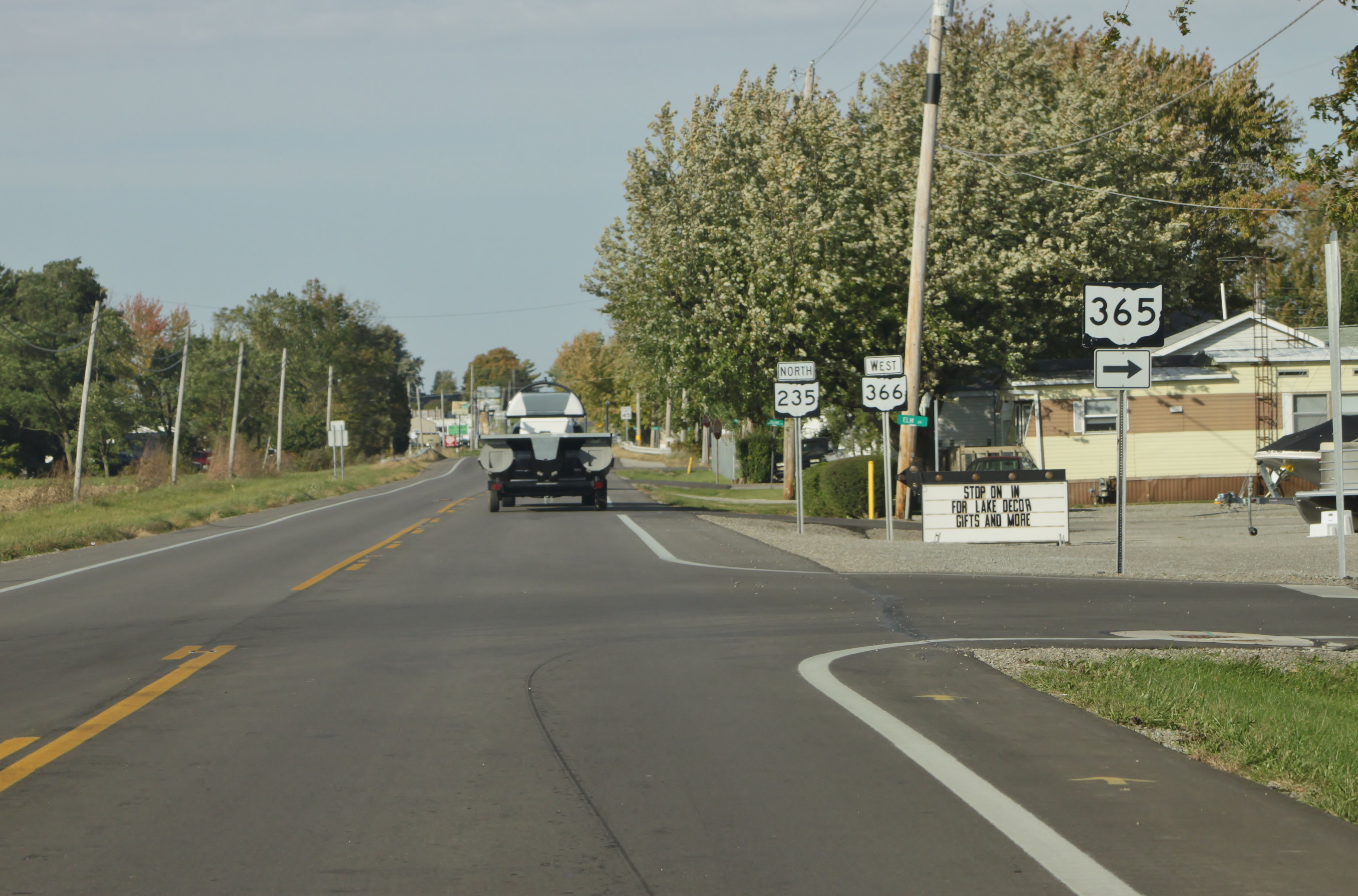 Looking northbound on Ohio State Route 235 and Ohio State Route 366 before the junction with Ohio State Route 365 on the west side of Indian Lake.